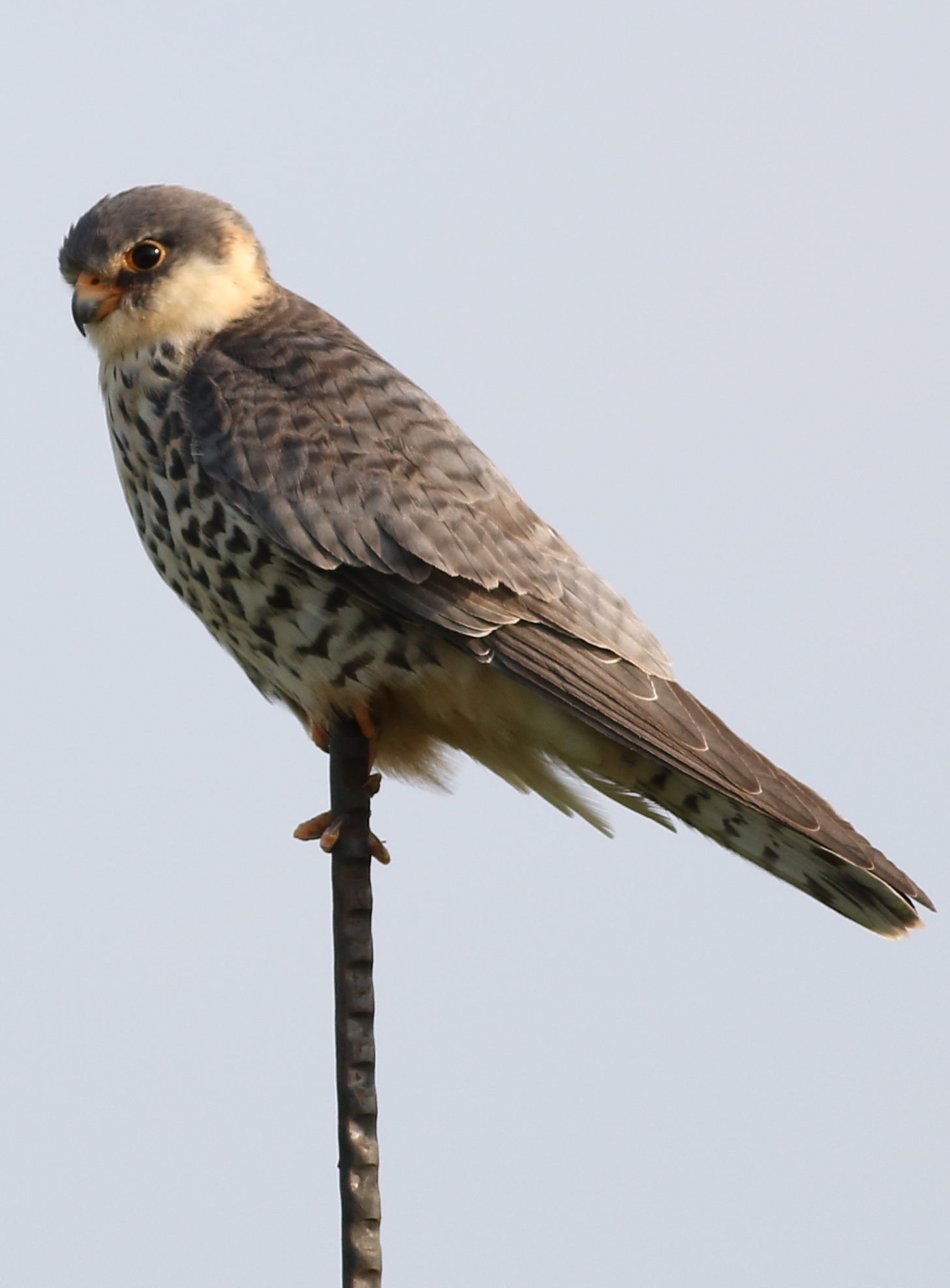 Amur falcon, Falco amurensis, female at Eendracht Road, Suikerbosrand, Gauteng, South Africa